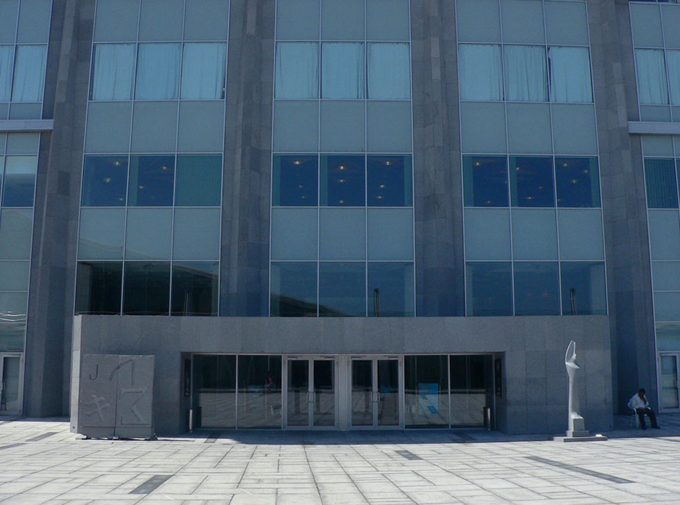 Entrance of the Bibliotheca Alexandrina Conference Center (BACC)